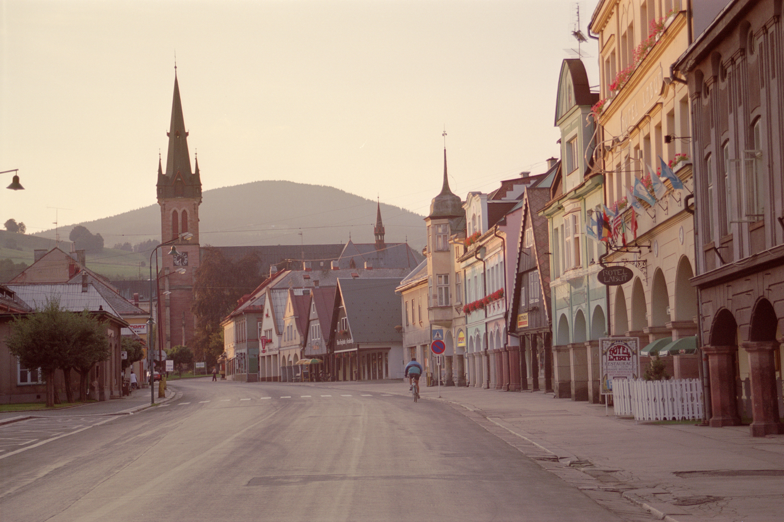 Vrchlabí - city in czech republic in Karkonosze self taken picture, taken in summer 1998 shows part of the city, main street